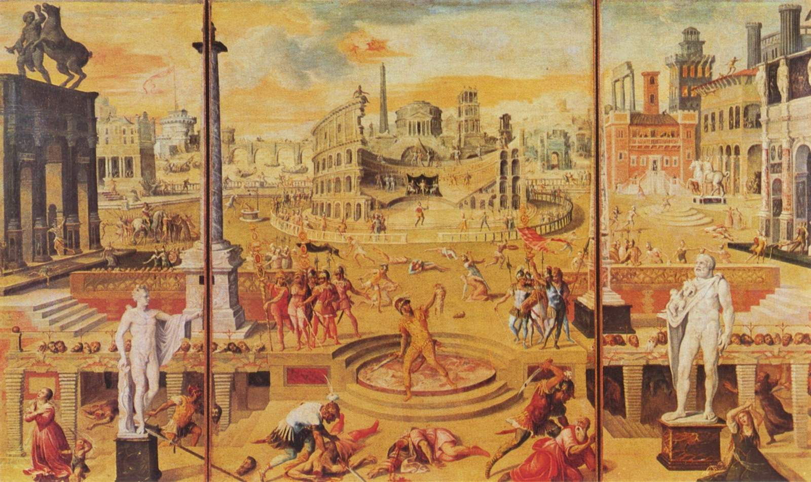 This painting refers to the massacres during the Wars of Religion in France: on April 6, 1561 Anne de Montmorency was joined by Jacques d'Albon de Saint-André and the Francis, Duke of Guise in an anti-Protestant Triumvirate. Antoine Caron also reminds the Civil Wars and the massacres carried out by Mark Antony, Octavius, the later emperor Augustus and Lepidus when they became triumvirs in 43 BC. The Roman ancient and contemporary monuments, and sculptures, the Apollo Belvedere and the Dioscuri, are painted after Antoine Lafréry's engravings. Caron had never been to Italy. On the right are Emperor Commodus as Hercules, discovered in 1507; the Arch of Constantine, built in 315 AD; Michelangelo's Capitoline Square; the Palazzo dei Senatori and the equestrian statue of Marcus Aurelius. On the left are the Apollo Belvedere; the triumphal arch of Septimus Severus from 203 AD with the a statue of the Fontana dei Dioscuri above; and Trajan's Column. The centre is occupied by the Colosseum, opened by Domitian in 80 AD; the Flaminio Obelisk in the back, the Pantheon and the (destoyed) Septizodium. In the background stand the triumphal arch of Titus on the right, the three columns of the Temple of Castor and Pollux and the Castel Sant'Angelo and Ponte Sant'Angelo on the left.